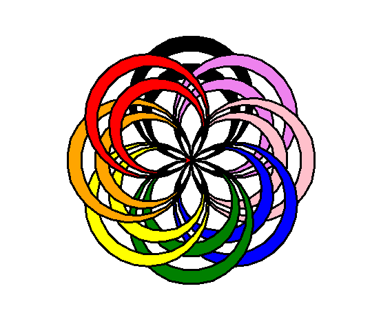 This is a pattern created by me with python program.